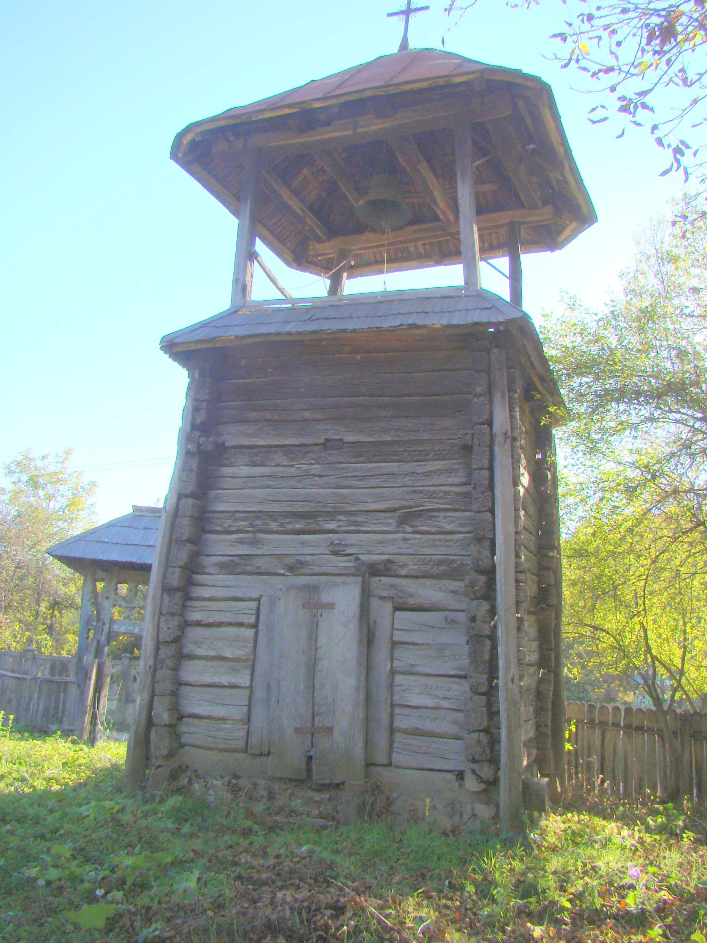 Wooden church in Sura, Gorj county, Romania